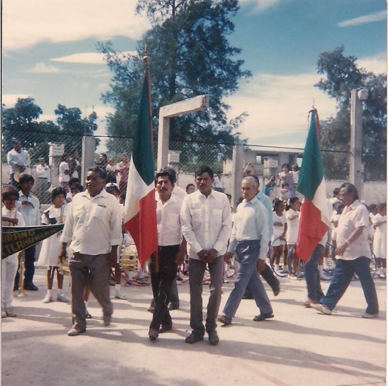 Antes de que se construyera el auditorio municipal.